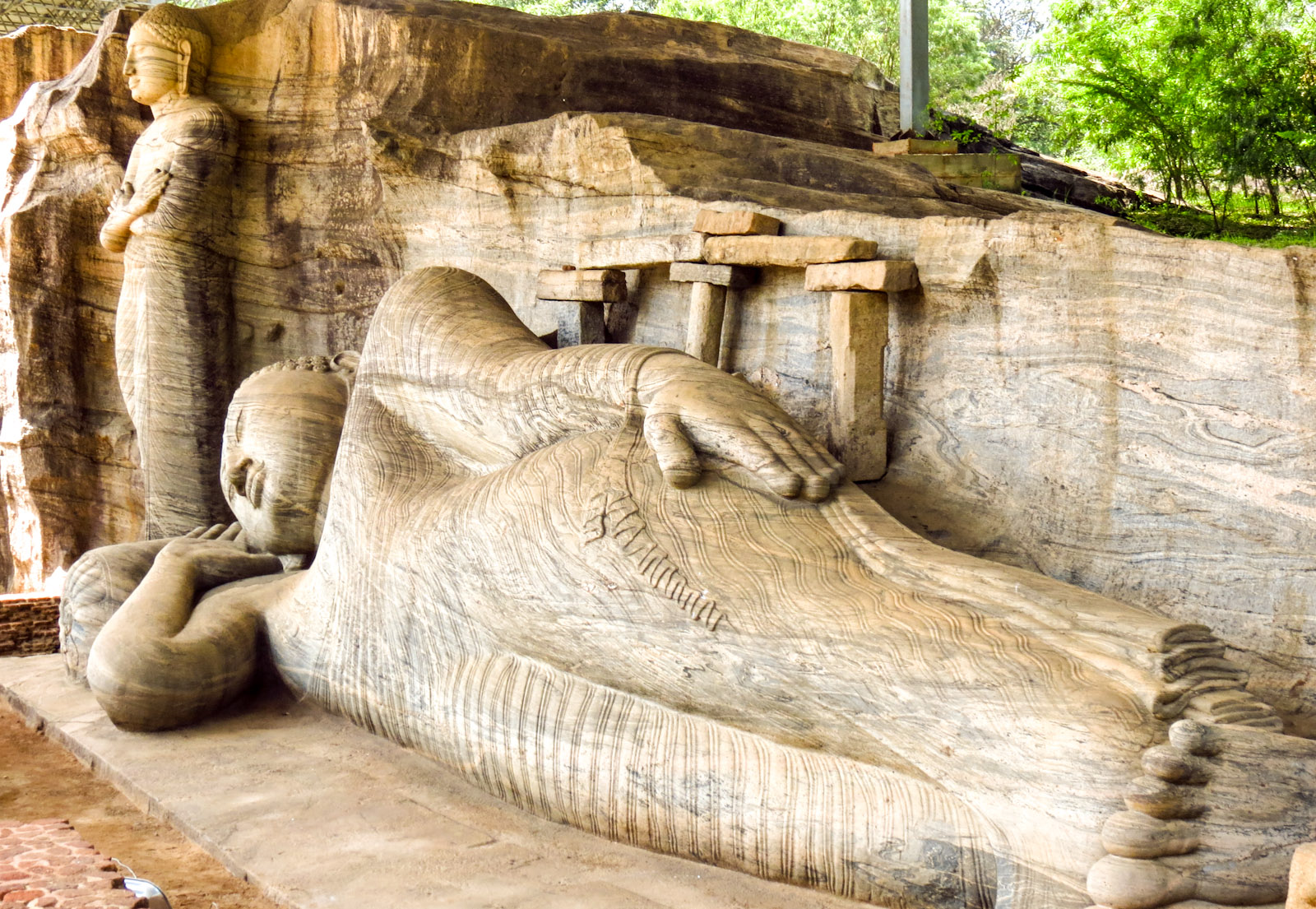 A Lying Buddha Statue in Gal Viharaya